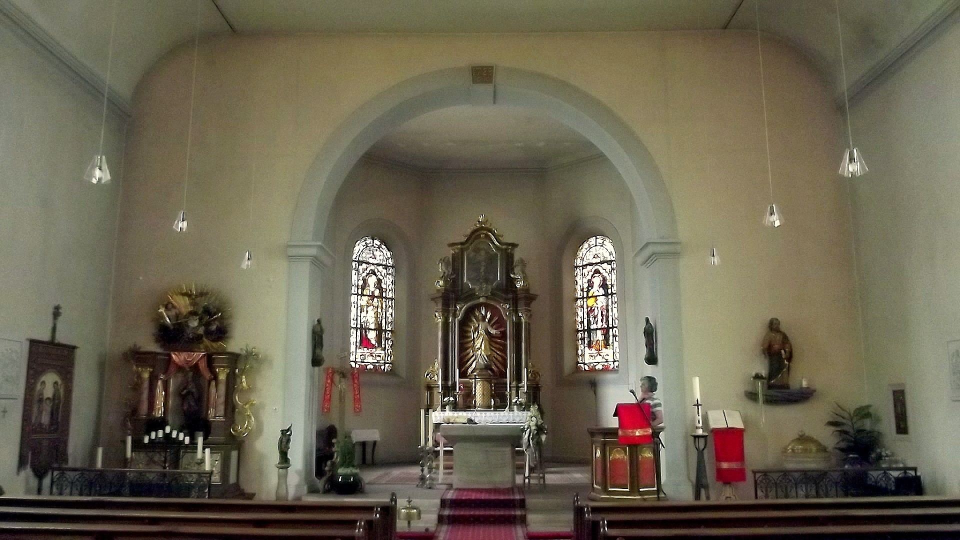 Interior of the roman catholic church in Bisten, Saarland, Deutschland